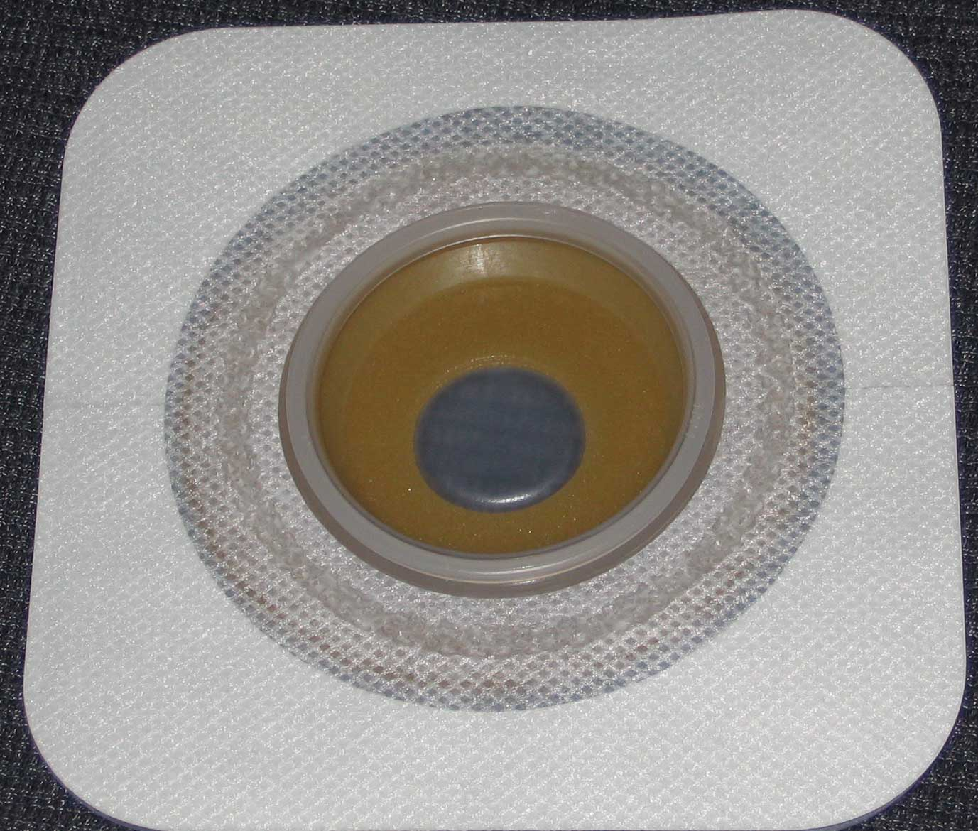 DCwom, author, released to public domain